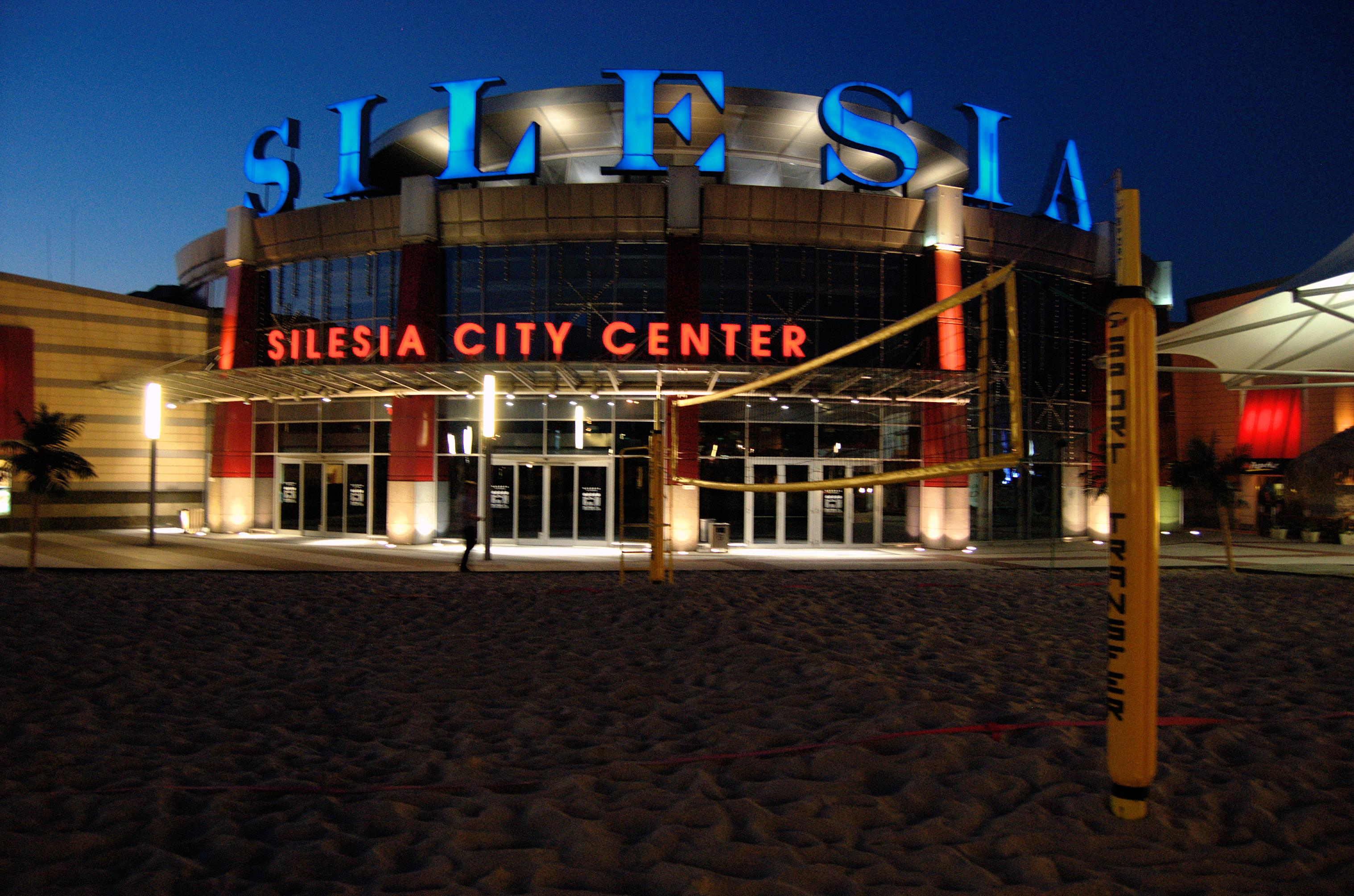 Silesia City Center